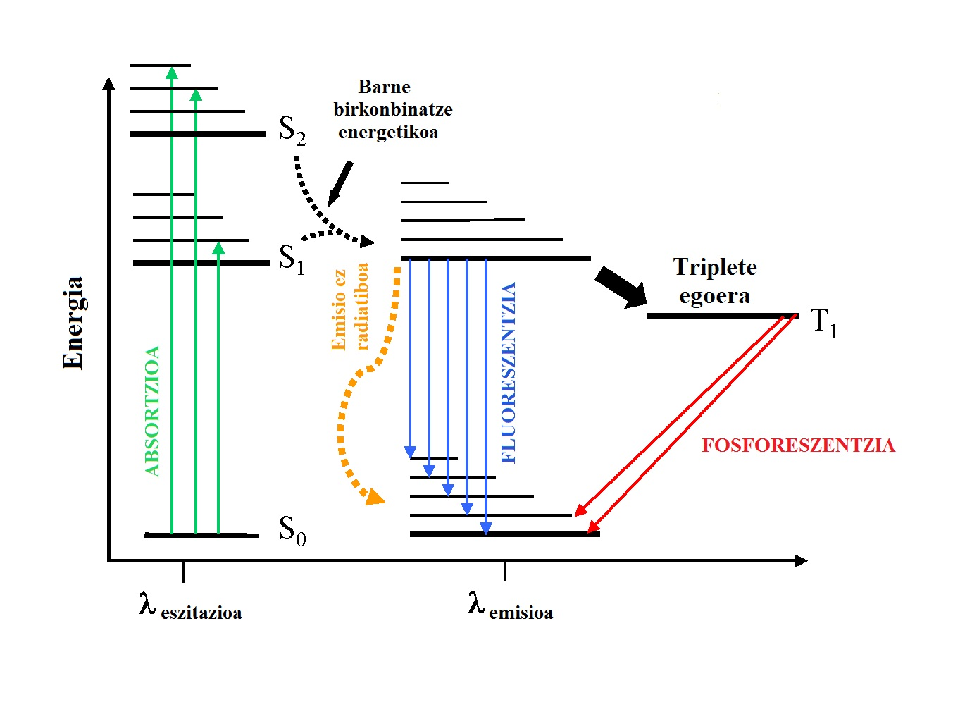 Jablonski diagram (Basque)